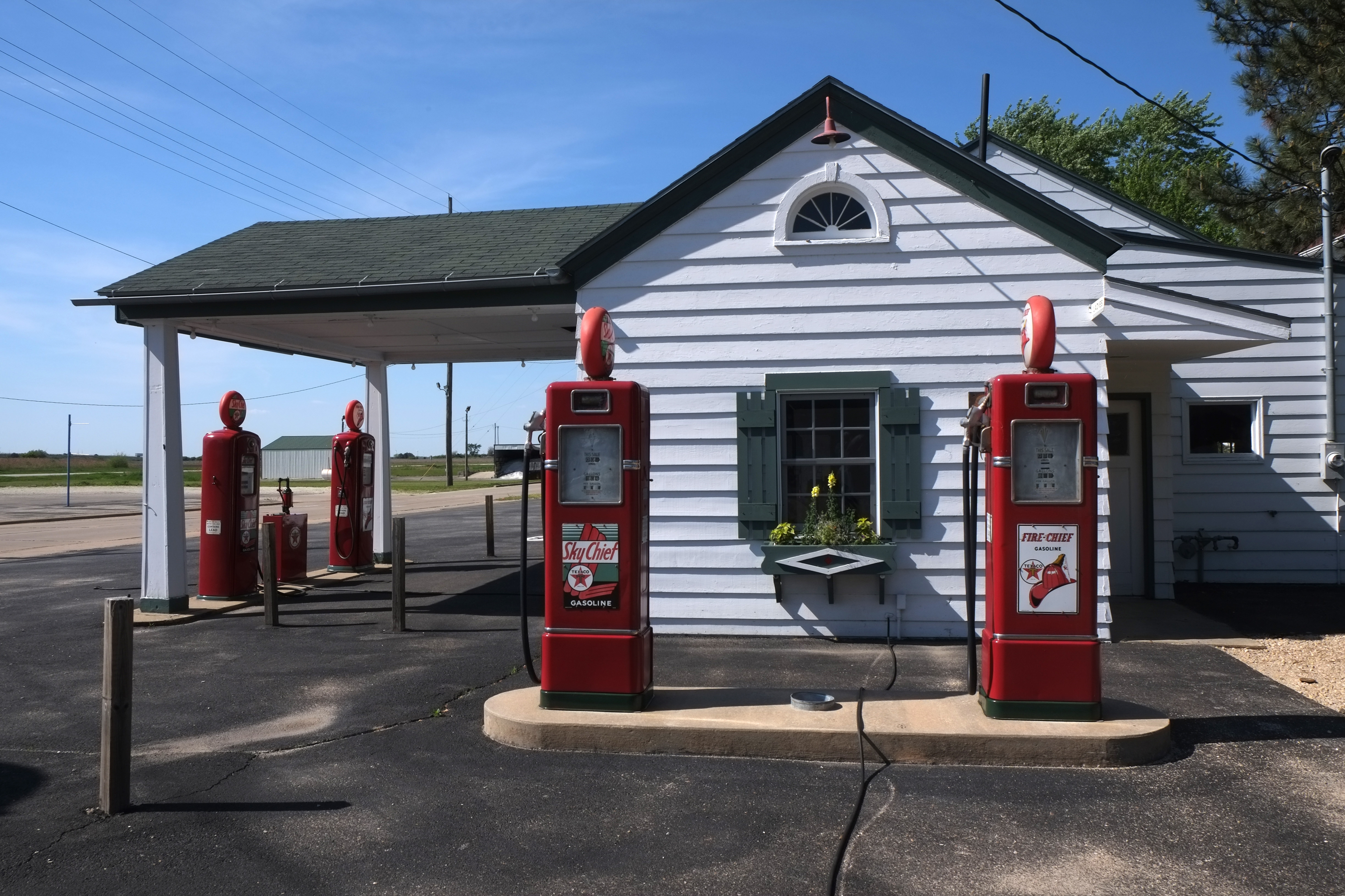 Historic route 66 in Dwight. Ambler's Texaco gasoline pump.